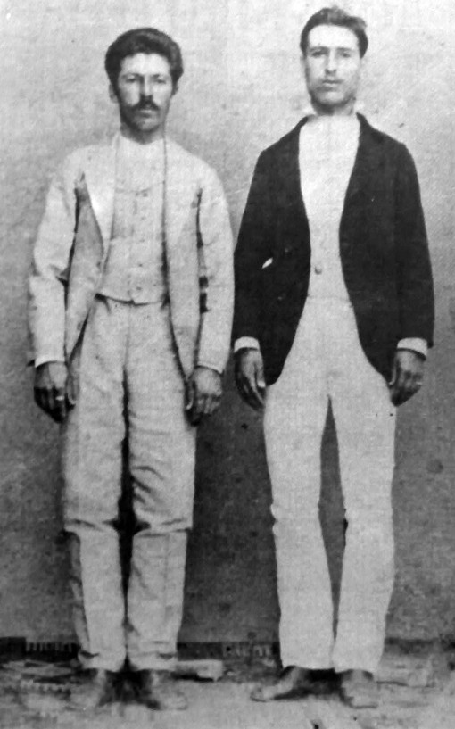 Vasil Levski's Last Comrades arrested with him